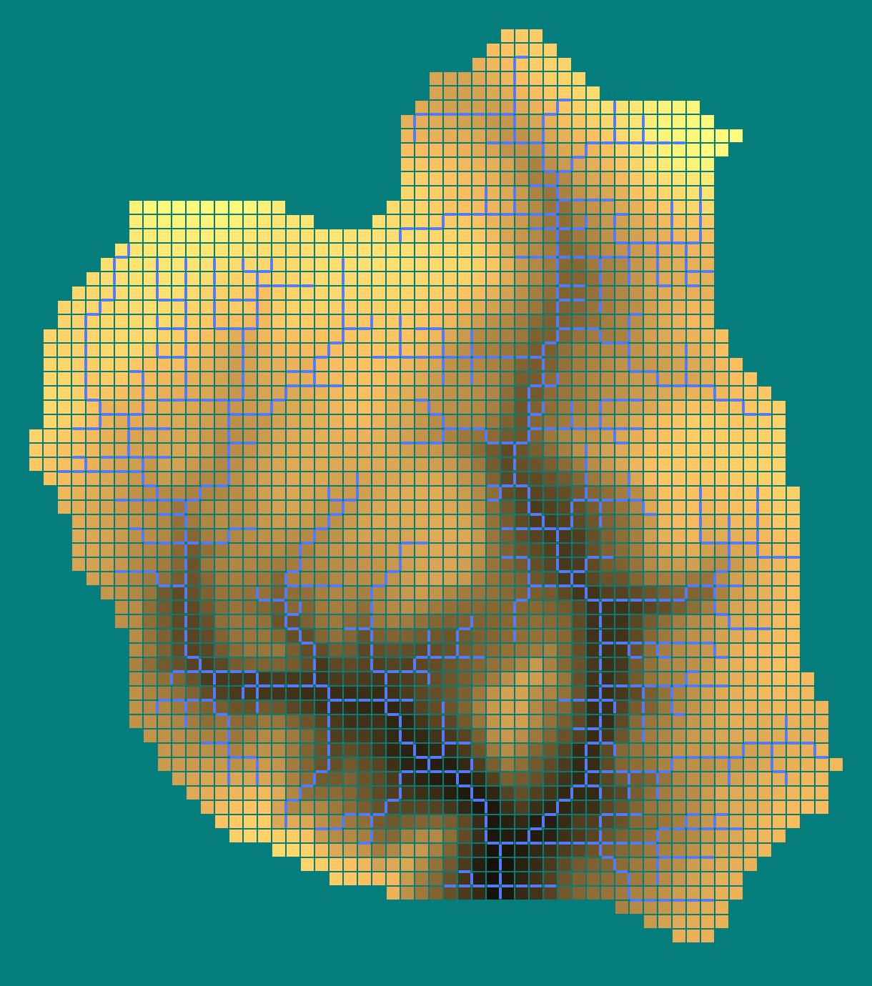 SHETRAN plan view of dunsop catchment, Bowland forest, UK